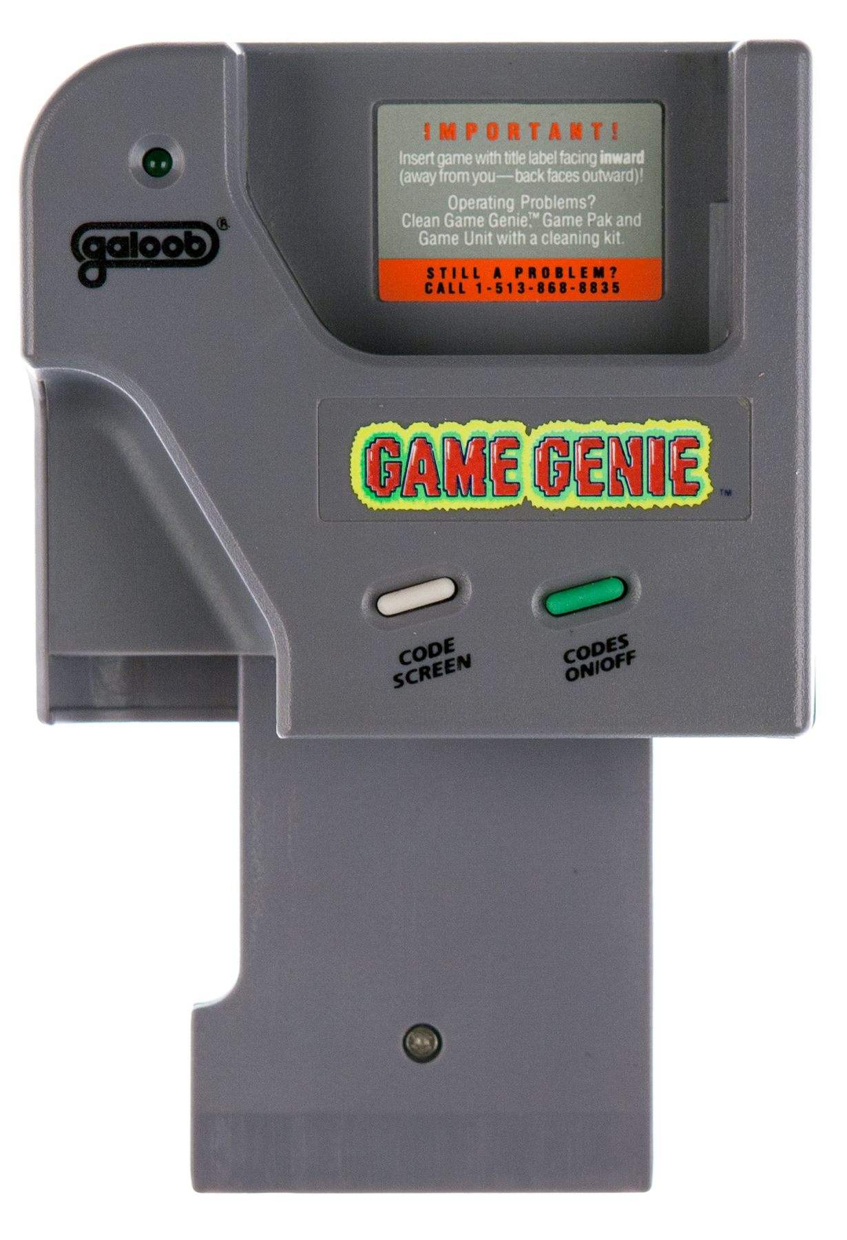 Photo by Thngs.co